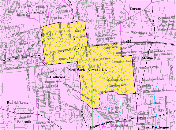 U.S. Census 2000 reference map for Holtsville